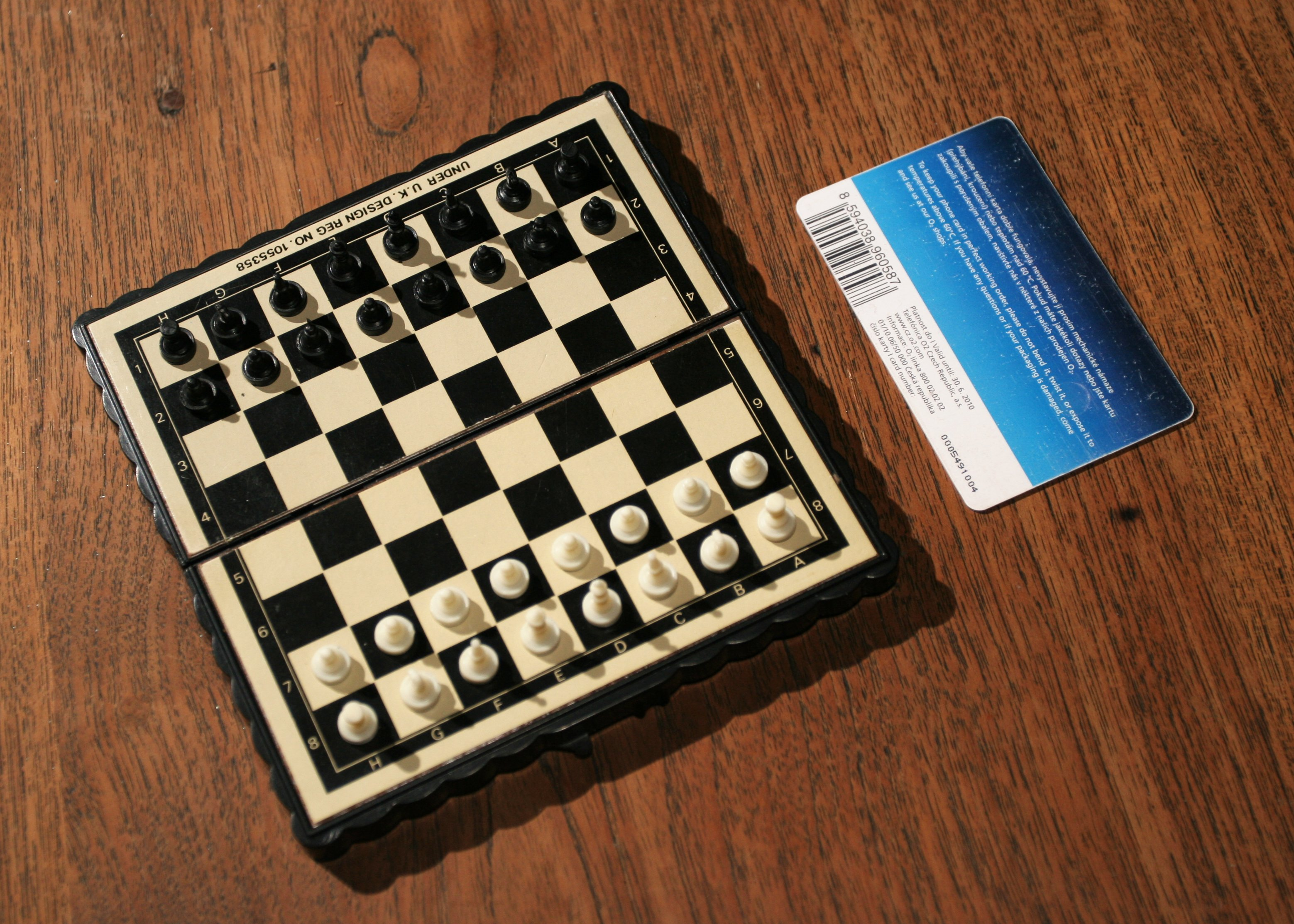 Chess board 0976